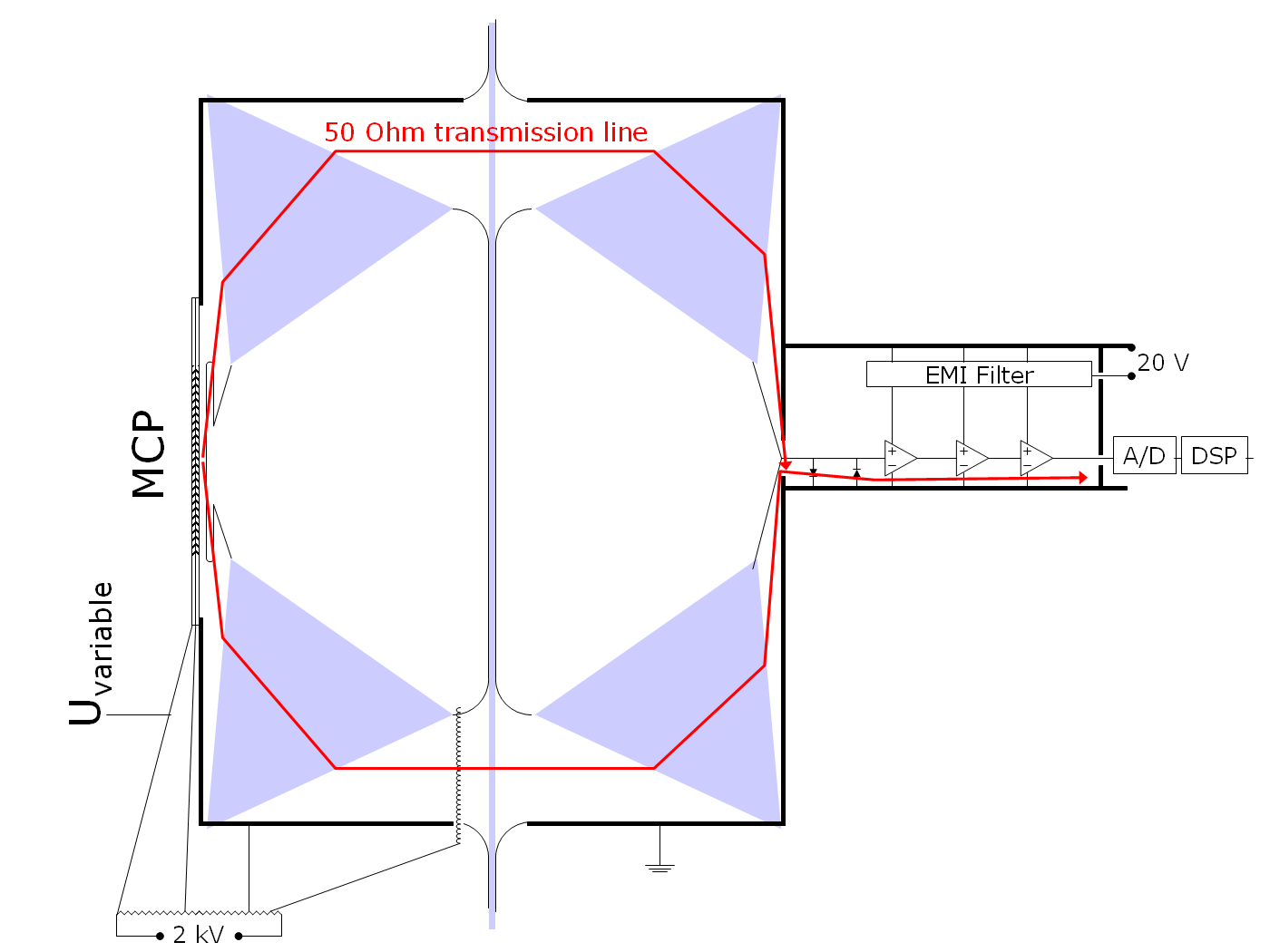 Description: MCPs deliver sub-ns pulses, when hit by single particles (or laser pulses). The electronic has to cope with it! Sources: Diploma thesis from a physicist. Review of Scientific Instruments. Documentatiion from MCP makers. Article about an REM. Date: 2005-11-13